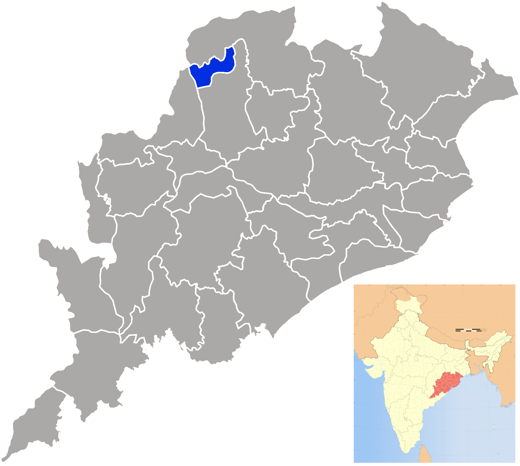 Jharsuguda district in Orissa